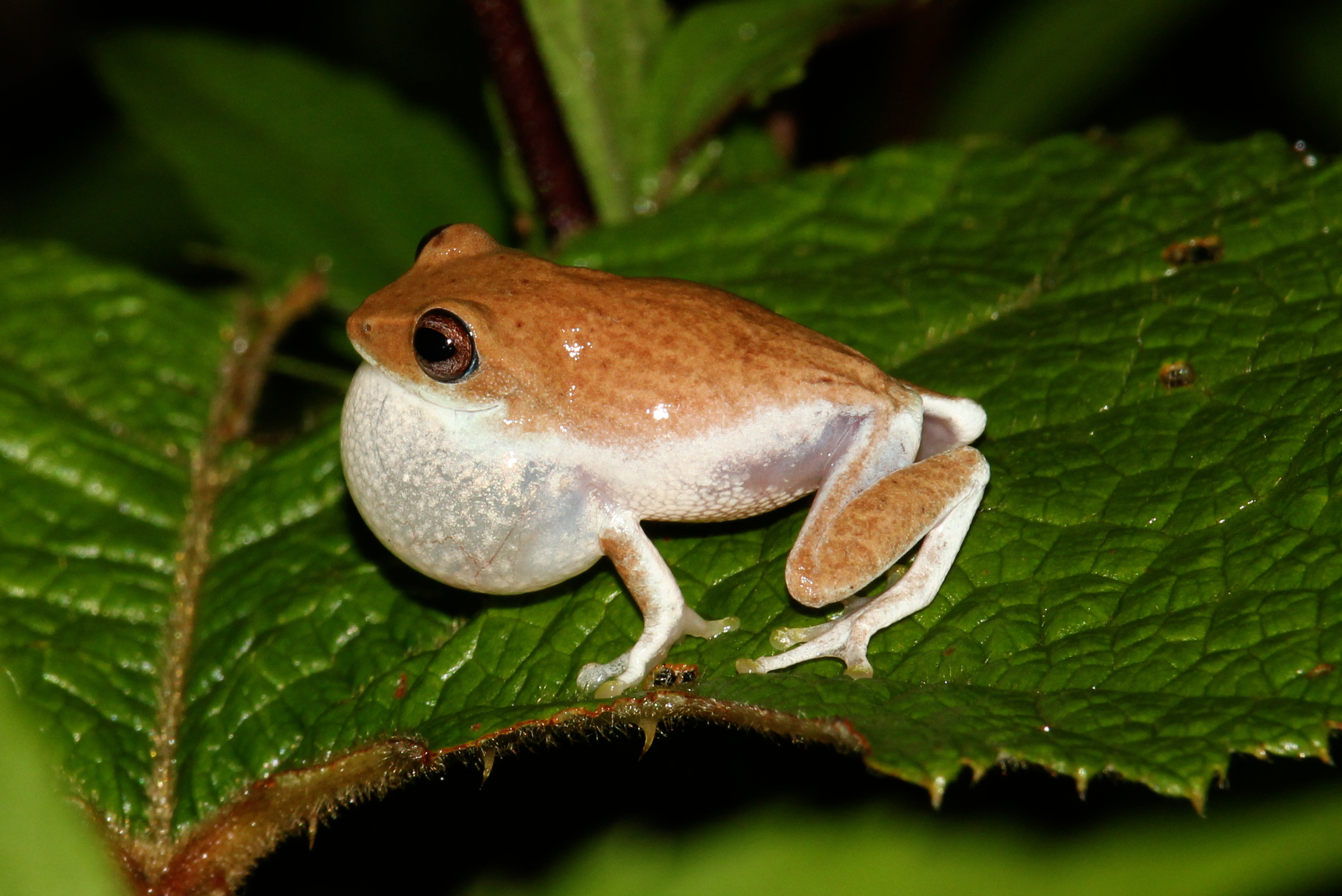 Pseudophilautus hoffmanni is an endemic species of frogs found in Sri Lanka. (Knuckles mountain range)